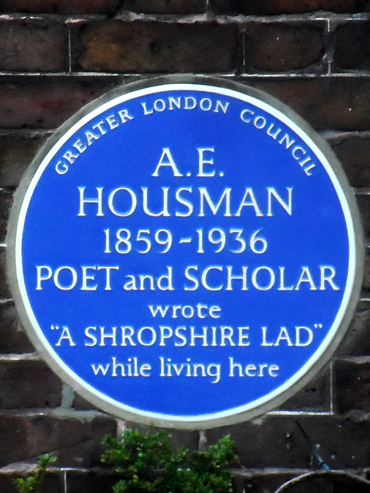 Blue paque erected in 1969 by Greater London Council at Byron Cottage, 17 North Road, Highgate, London N6 4BD, London Borough of Haringey